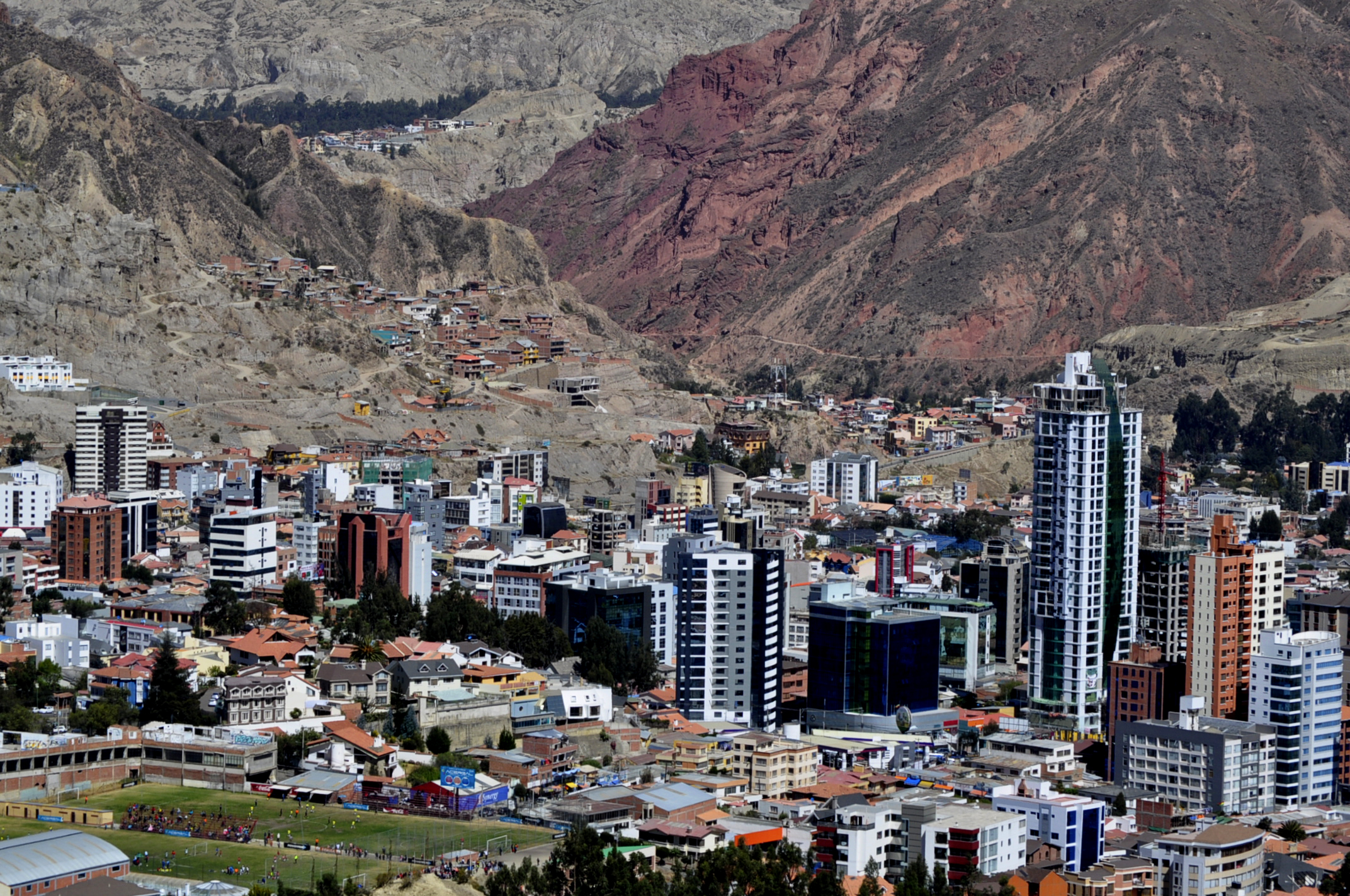 Calacoto neighborhood, La Paz, Bolivia